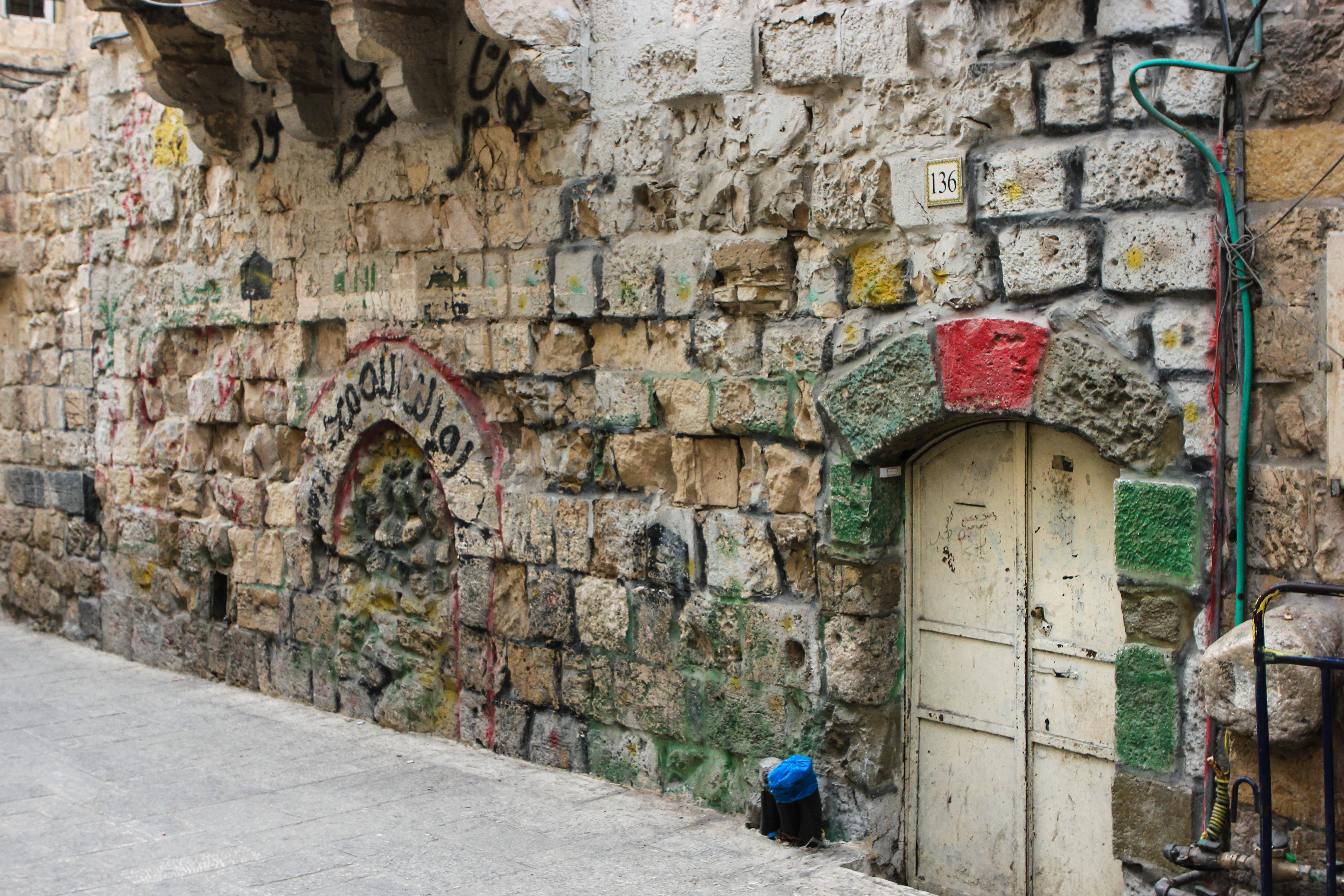 Old City of Jerusalem